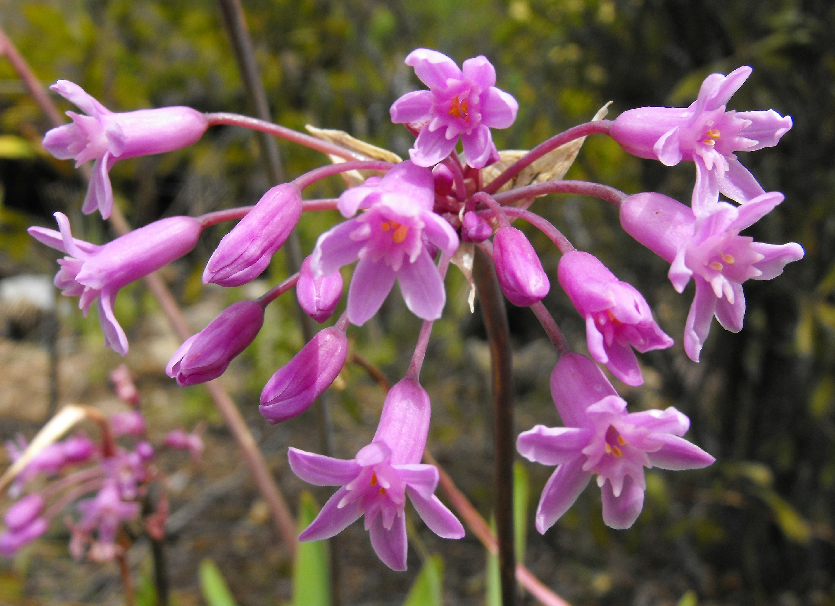 Tulbaghia fragrans at the UC Berkeley Botanical Garden, California, USA. Identified by sign.